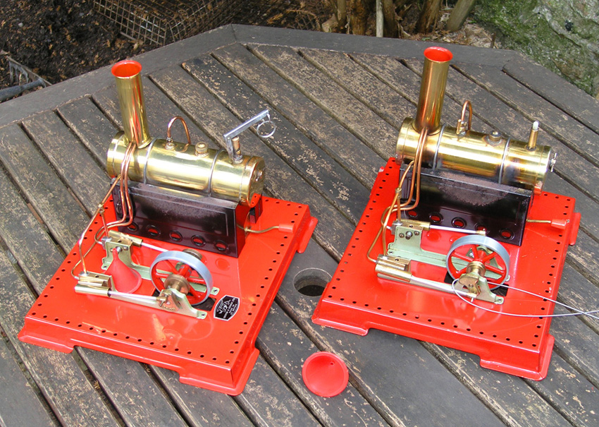 Two Mamod SE3 twin cylinder steam engines, photographed on a wooden table top. One of the engines is the Griffin and George version. Both date from 1969.